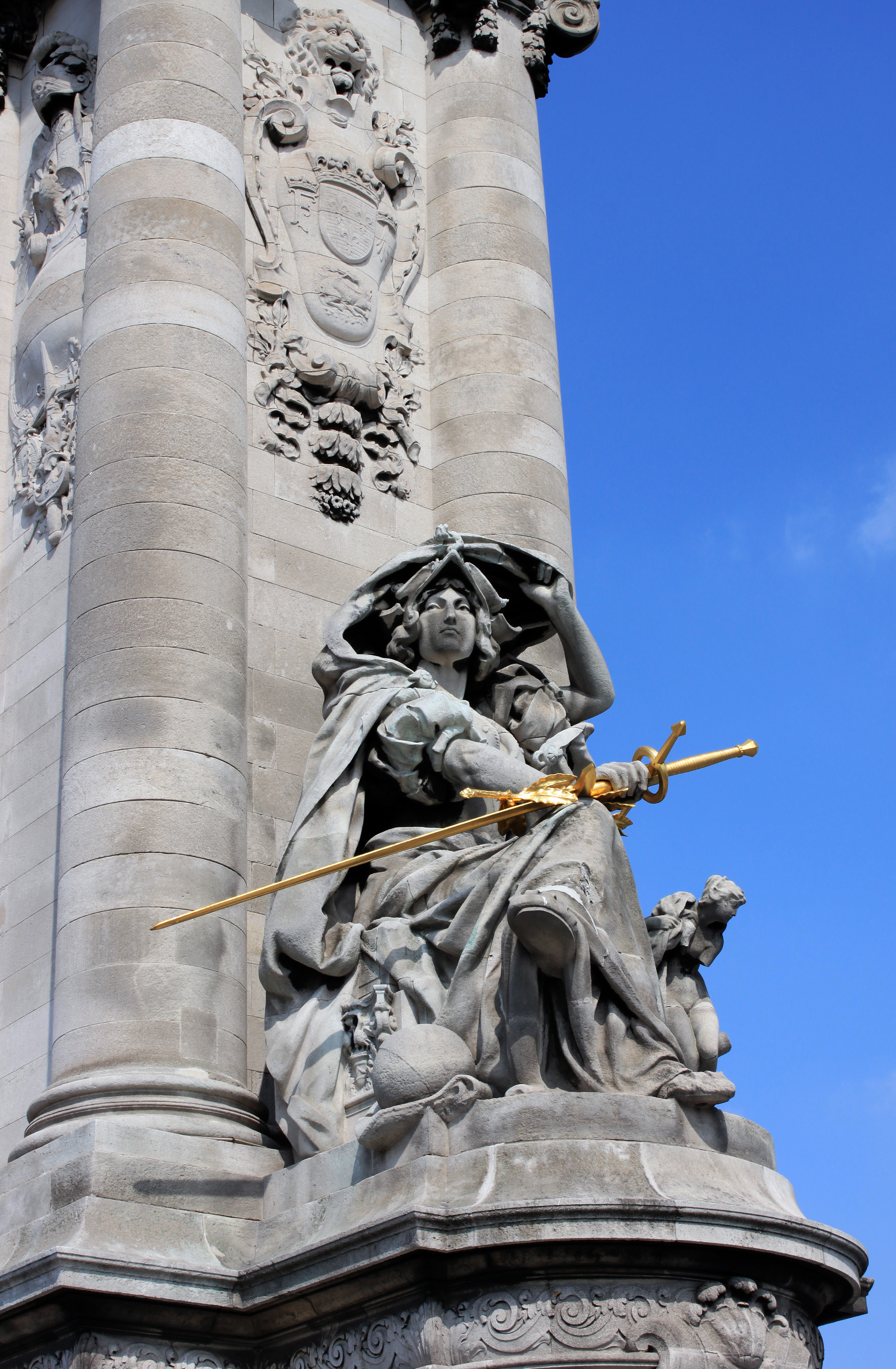 "La France de la Renaissance", by Jules-Félix Coutan, on the upstream pile of the left bank of the pont Alexandre III, Paris.